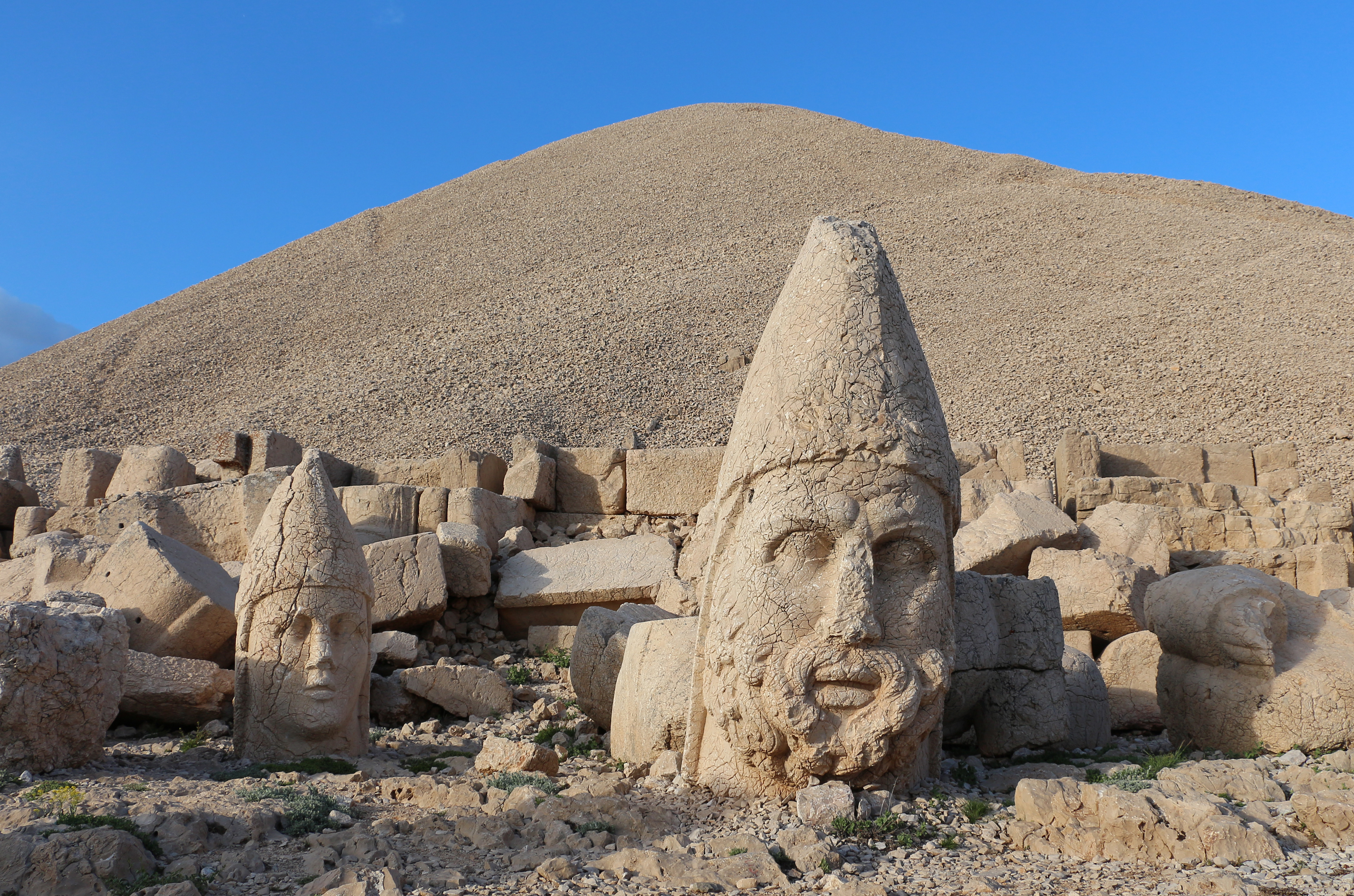 Western terrace of the Nemrut Dağı, Turkey